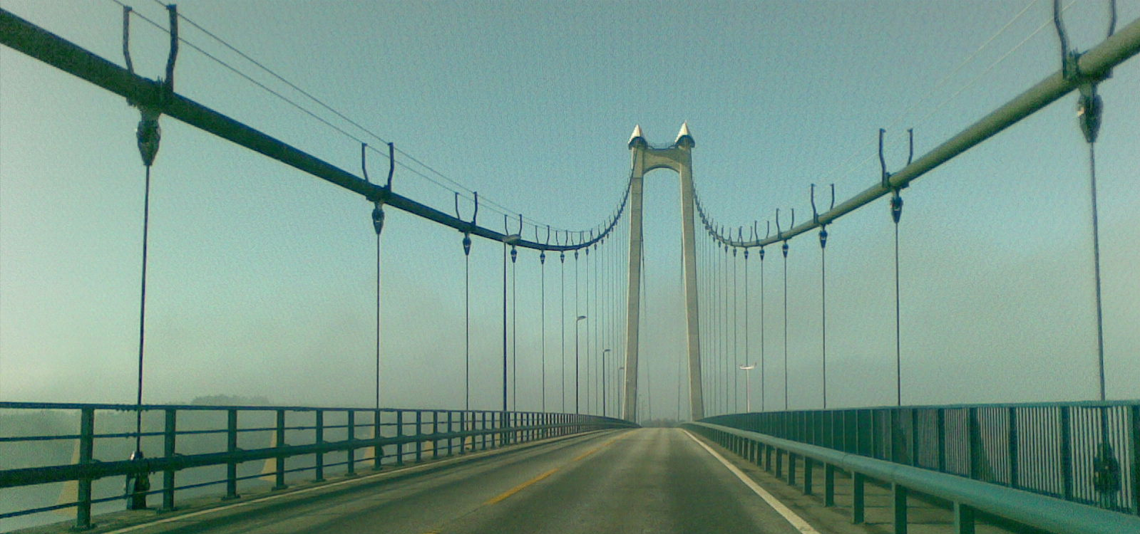 The Stord Bridge, Norway